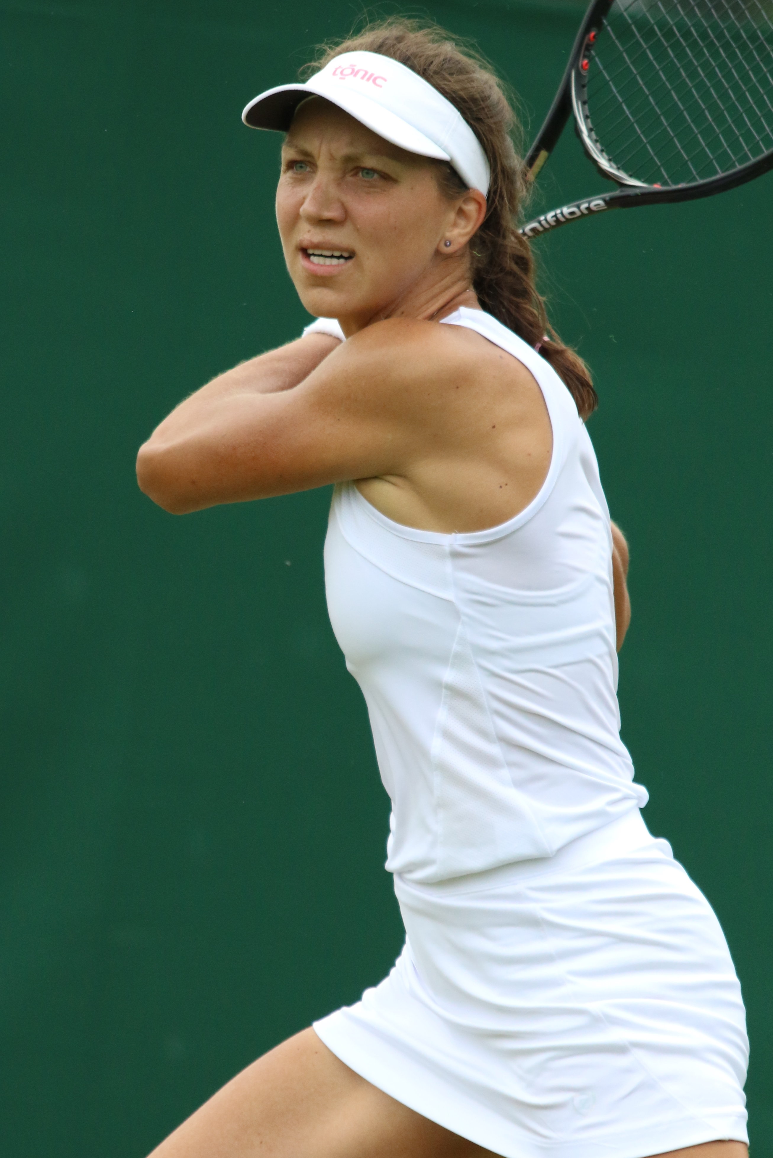 2019 Wimbledon Qualifying Tournament.